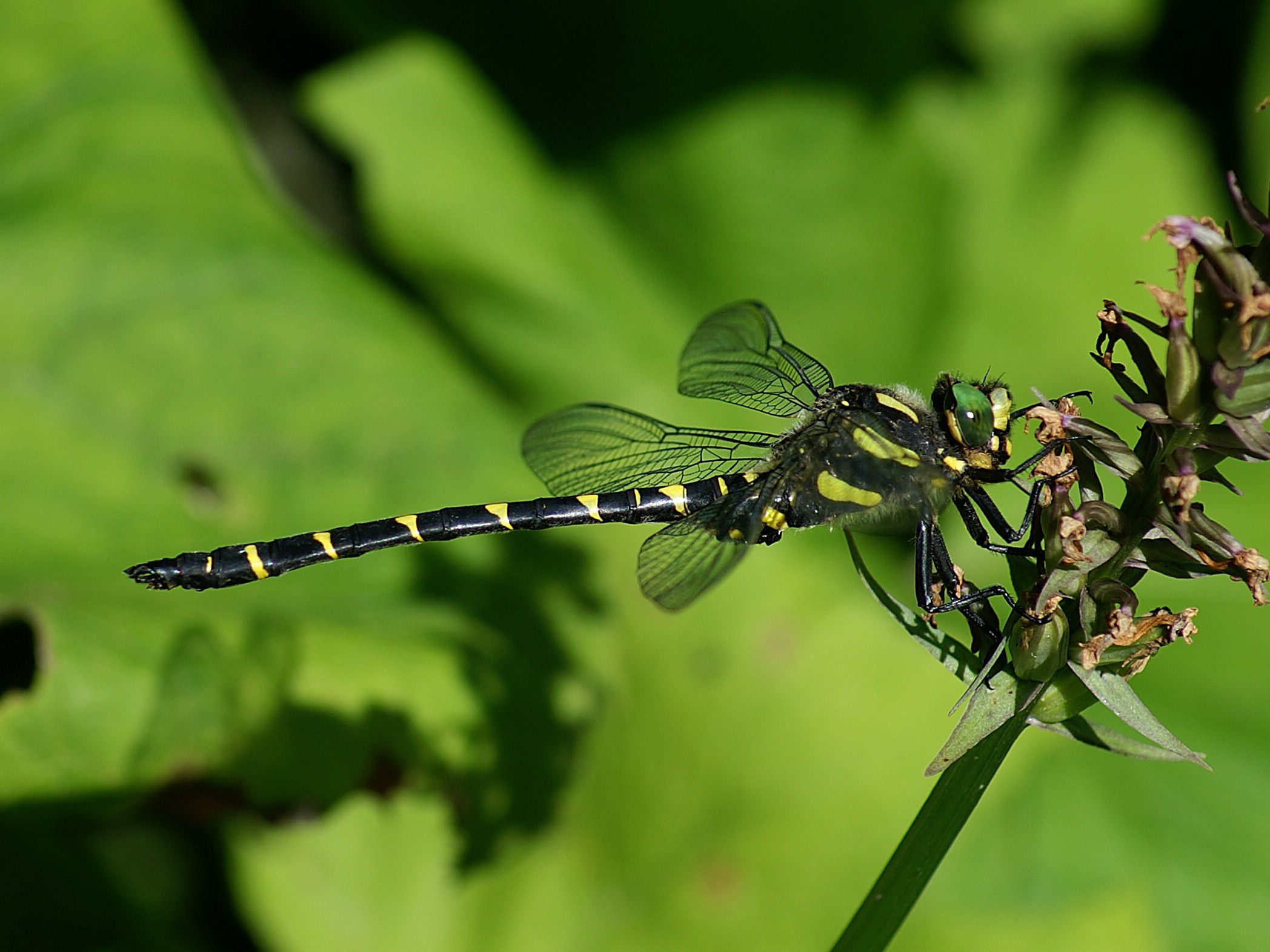 The dragonfly Cordulegaster bidentata.